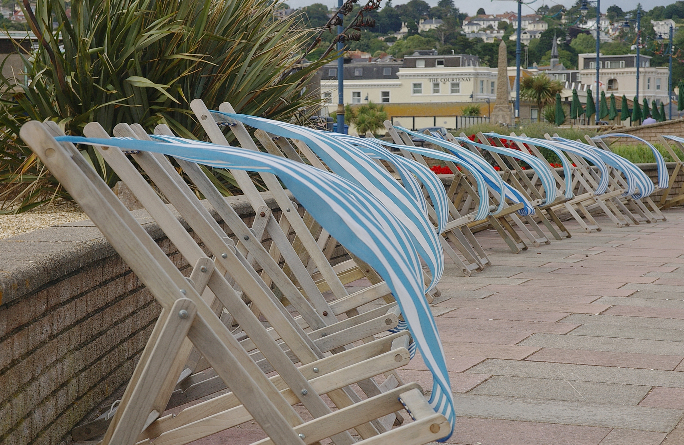 Deckchairs blowing in the wind at Teignmouth.